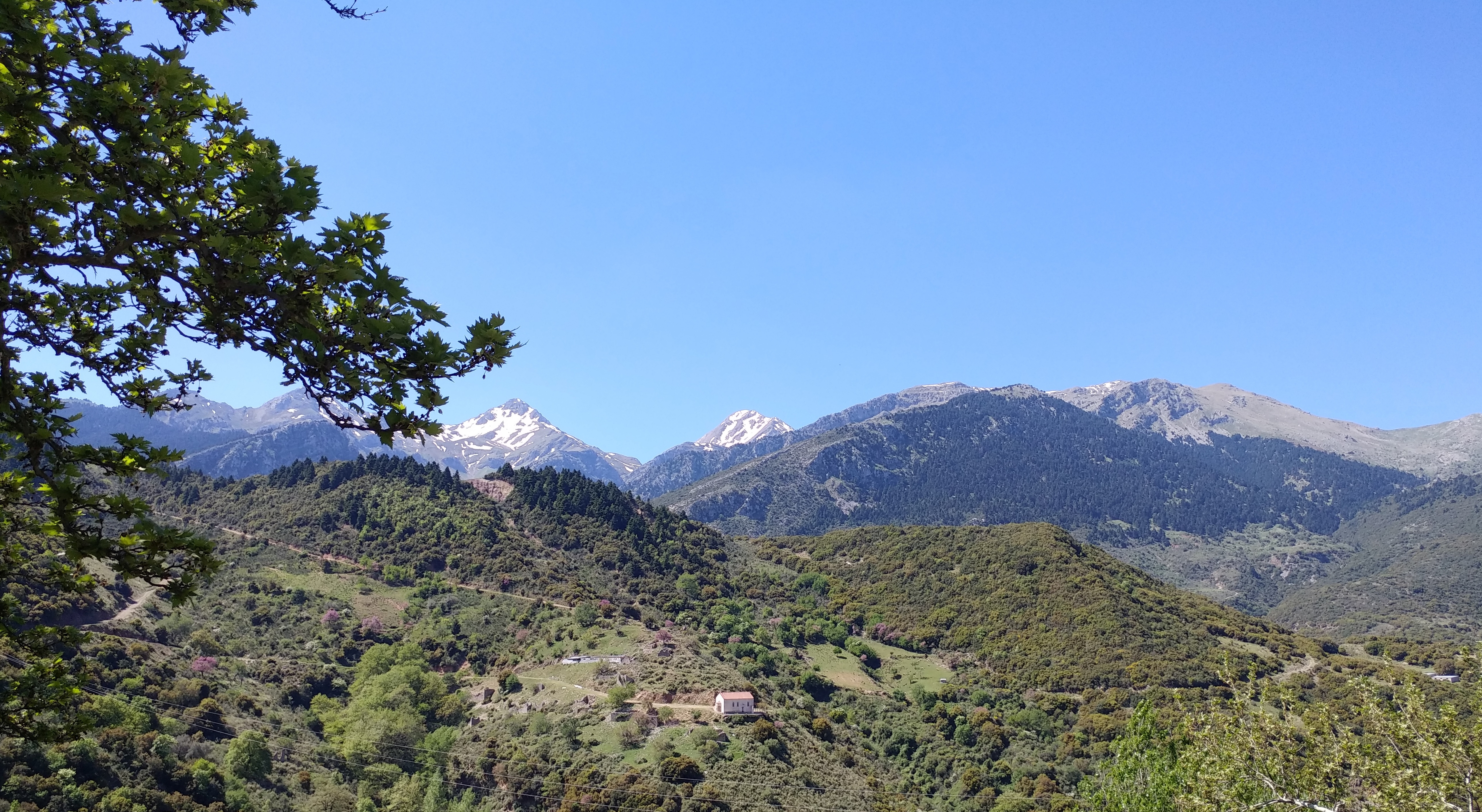 View of Palaio Kompigadi village ruins, Achaia, Greece, standing on the slopes of Erymanthos Mt. Τhe Christian Orthdodox church dedidated to Saint Constantine and Saint Helen stands among the ruis. The foto was taken from Dendra village, Achaia, Greece, which sides on the Patra-Kalavryta road.